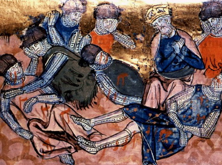 Carlomagno_roldan.jpg